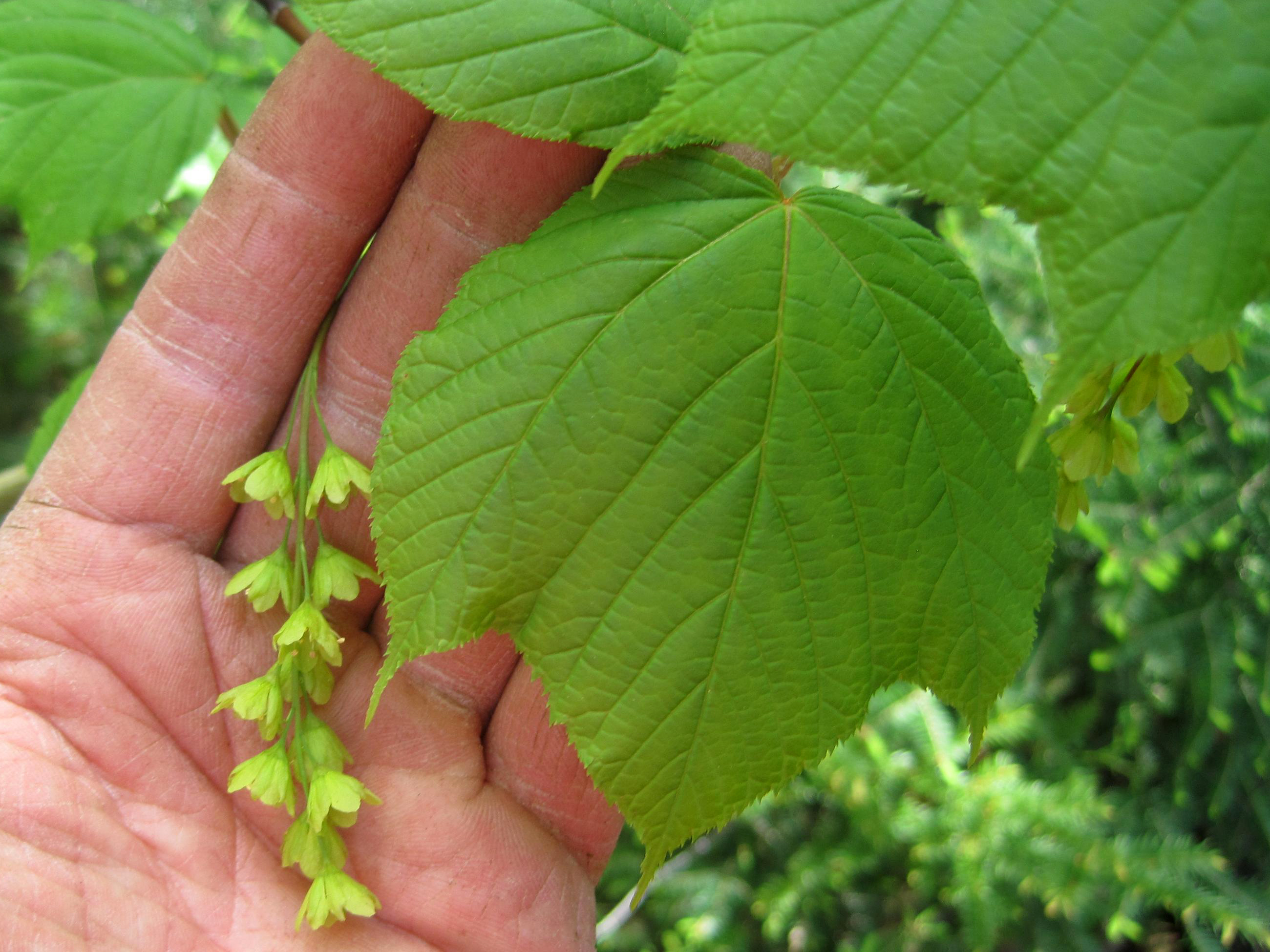 striped maple Acer pensylvanicum L. Descriptor: Foliage Description: striped maple (Acer pensylvanicum), May 29 Image type: Field Image location: Thielman Road, Goulais River, Ontario, Canada